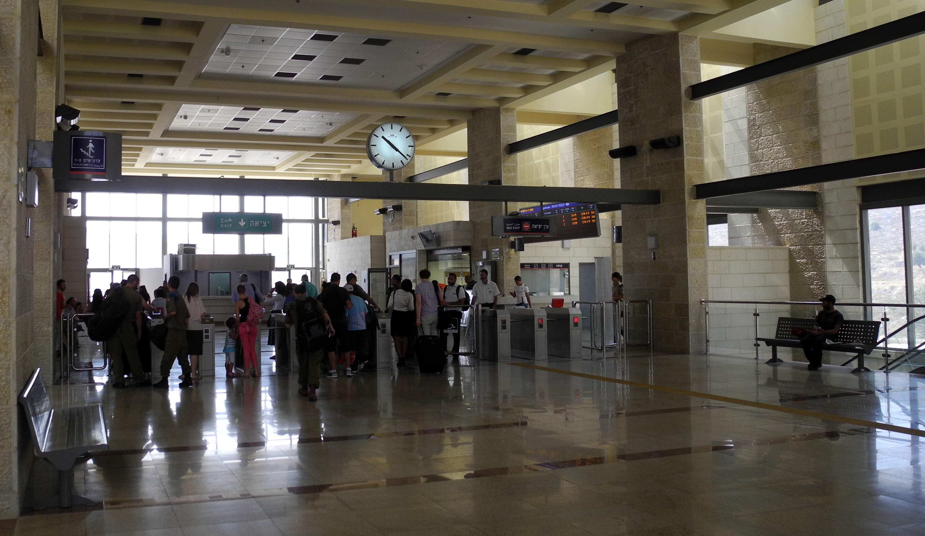 Malha railway station, Jerusalem (inside)